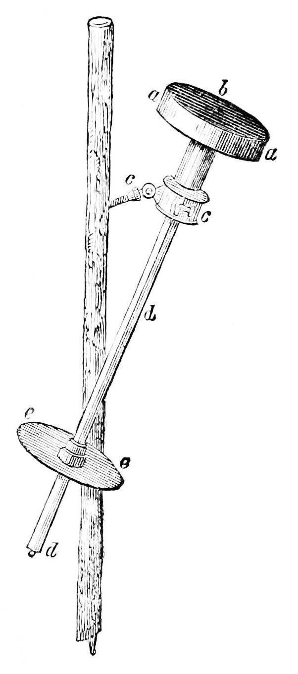 The Pouillet pyrheliometer